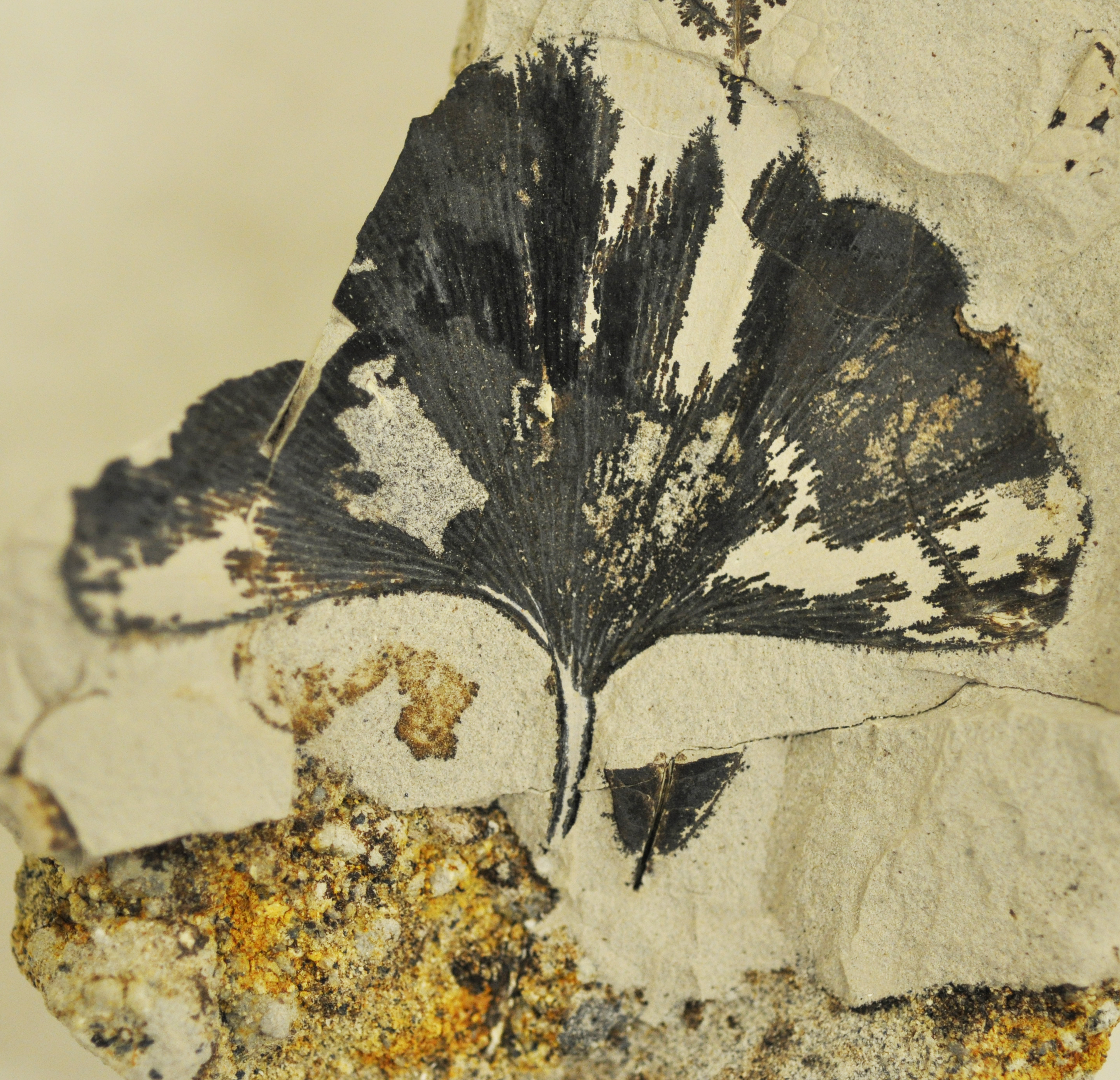 Leaf compression of Ginkgo adiantoides from sediments below middle Miocene Teanaway Basalt, near Teanaway, Washington. Specimen in the Burke Museum, University of Washington